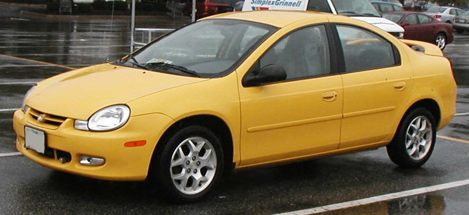 2000-2002 Dodge Neon SXT photographed in USA.